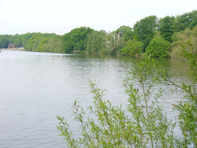 Hedgecourt Lake Tree-fringed lake by Felbridge. The foreground is used by anglers. The lake in the distance is used by yachtsmen.